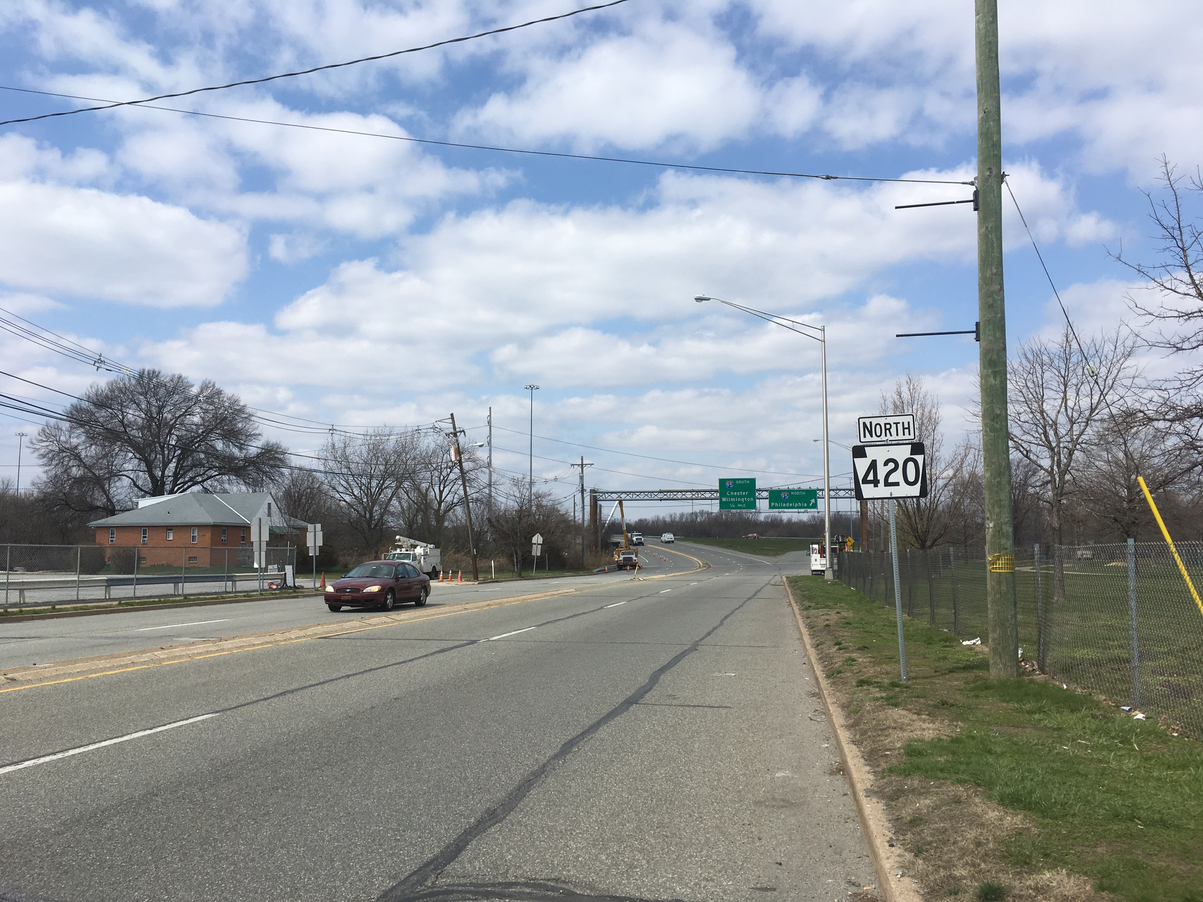 Northbound Pennsylvania Route 420 (Wanamaker Avenue) past its southern terminus at Pennsylvania Route 291 (Industrial Highway) in Essington, Pennsylvania